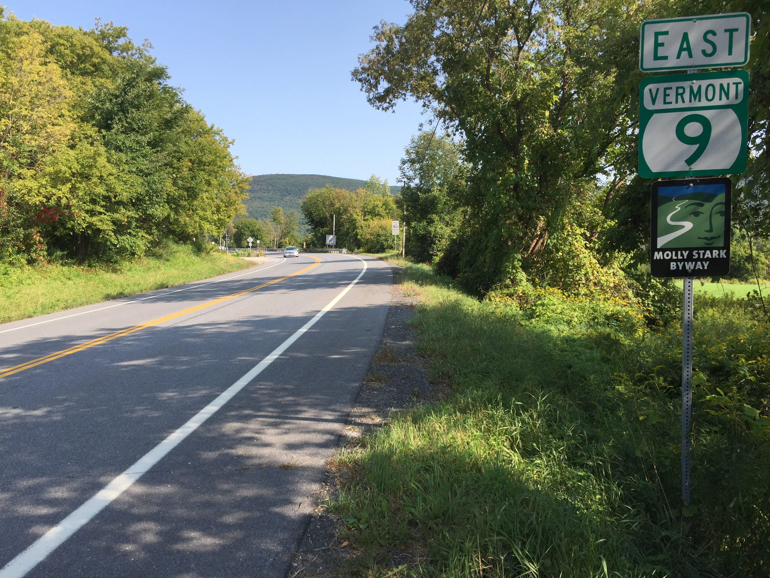 View east along Vermont State Route 9 (West Road) just east of the New York State Line in Bennington, Bennington County, Vermont